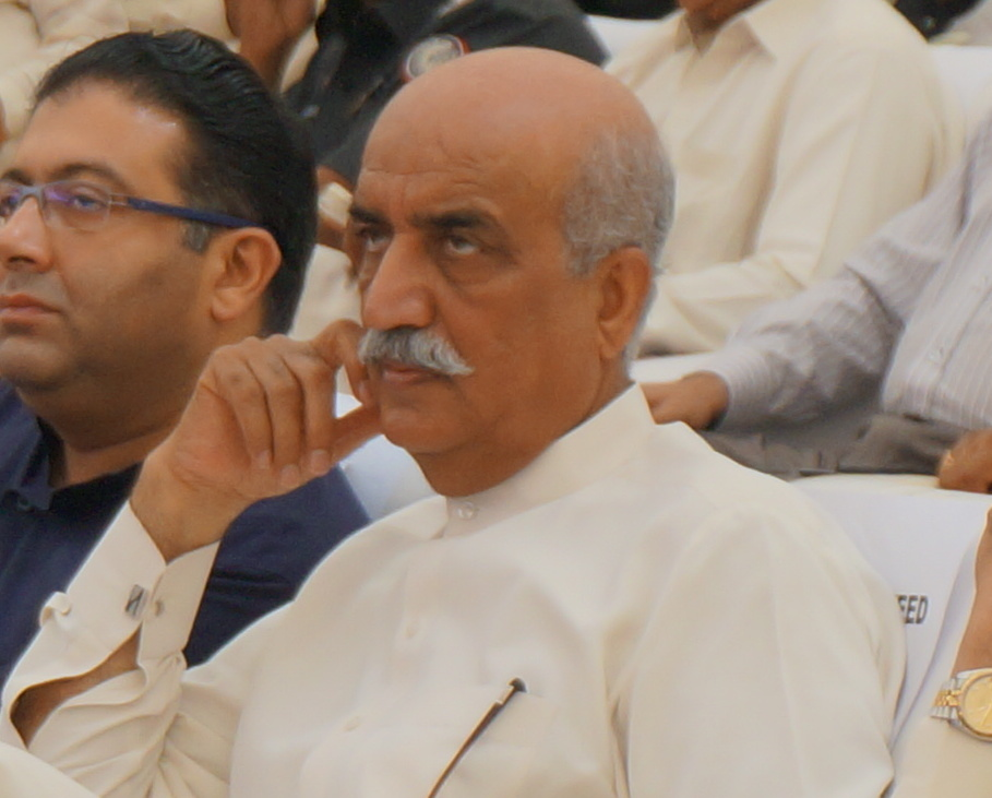 Syed Khurshid Ahmed Shah